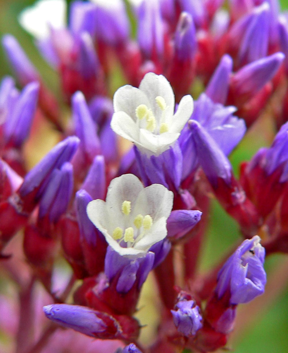 Photo of Limonium perezii at the San Francisco Botanical Garden